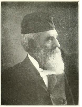 Father of George Malcolm Stratton, who founded UC Berkeley's psychology department. Notable in his own right as a US Surveyor General of California; one who broke up the Mexican grants. The site has a biography of the senior Stratton. A google search will easily show his son's notability.